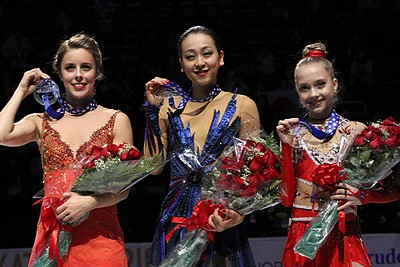 The ladies podium at the 2013 Skate America. From left: Ashley Wagner(2nd); Mao Asada(1st); Elena Radionova(3rd).